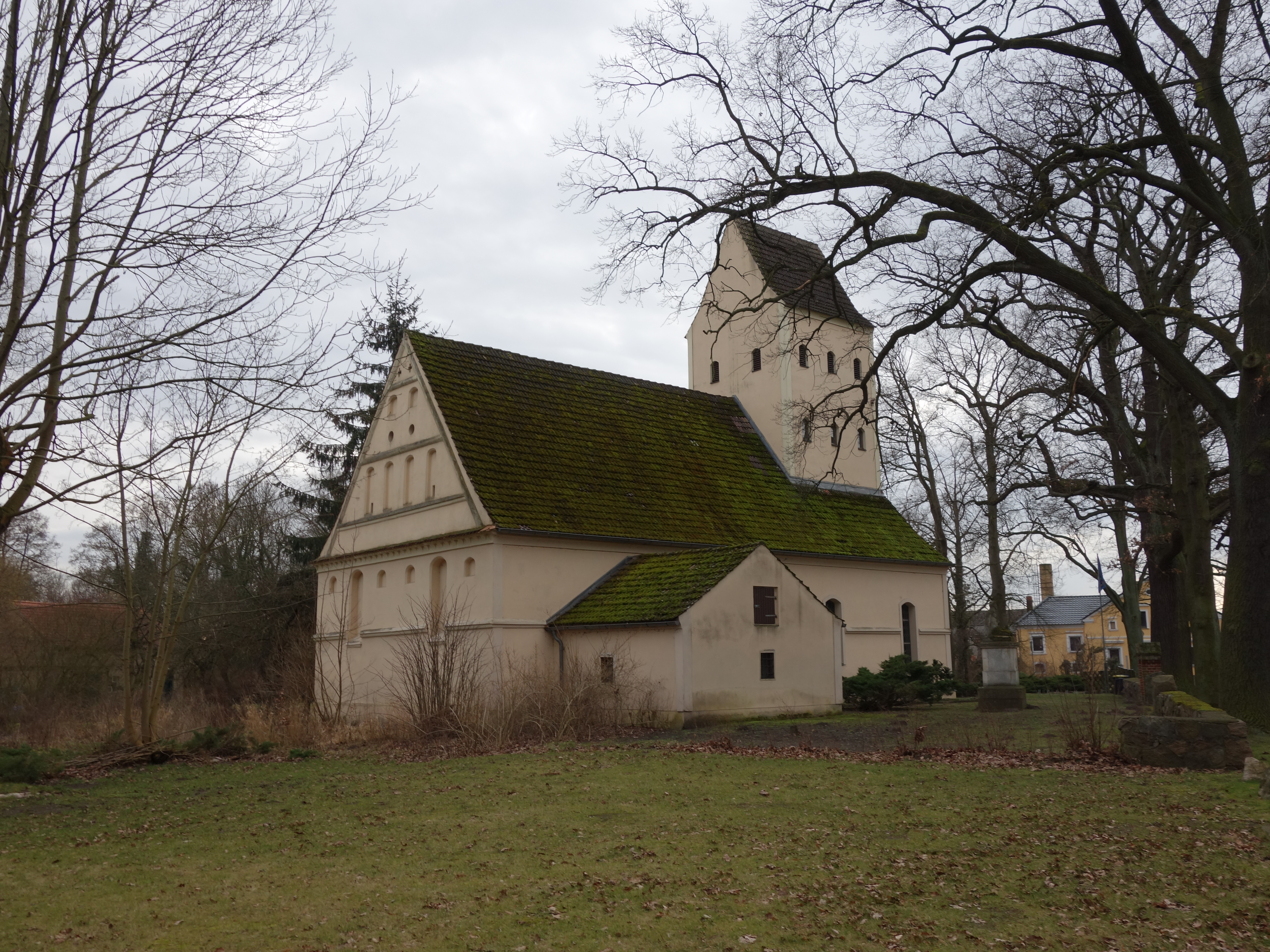 East-north-eastern view of Walsleben church, Walsleben municipality, Ostprignitz-Ruppin district, Brandenburg state, Germany